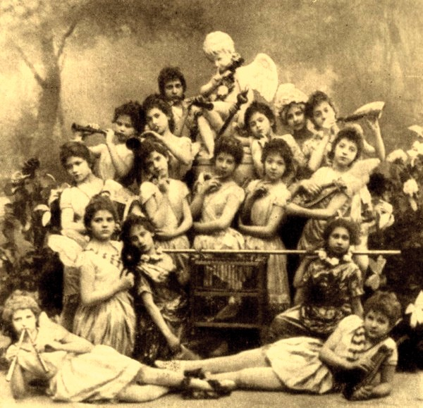 Students of the Imperial Ballet School photographed in costumes for Marius Petipa's ballet "A Fairy Tale". Kneeling to the left and holding the birdcage is a young Anna Pavlova.